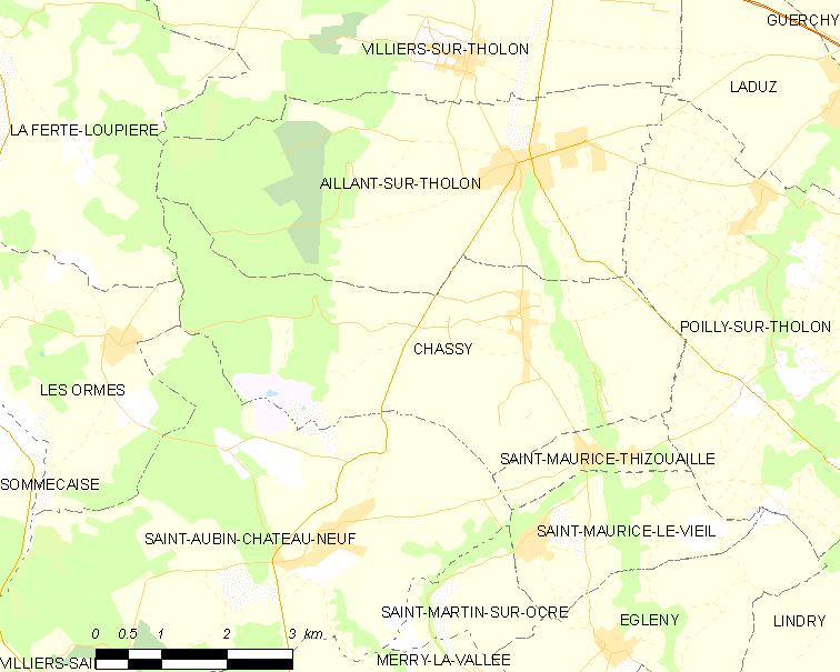 Map of French municipality Chassy